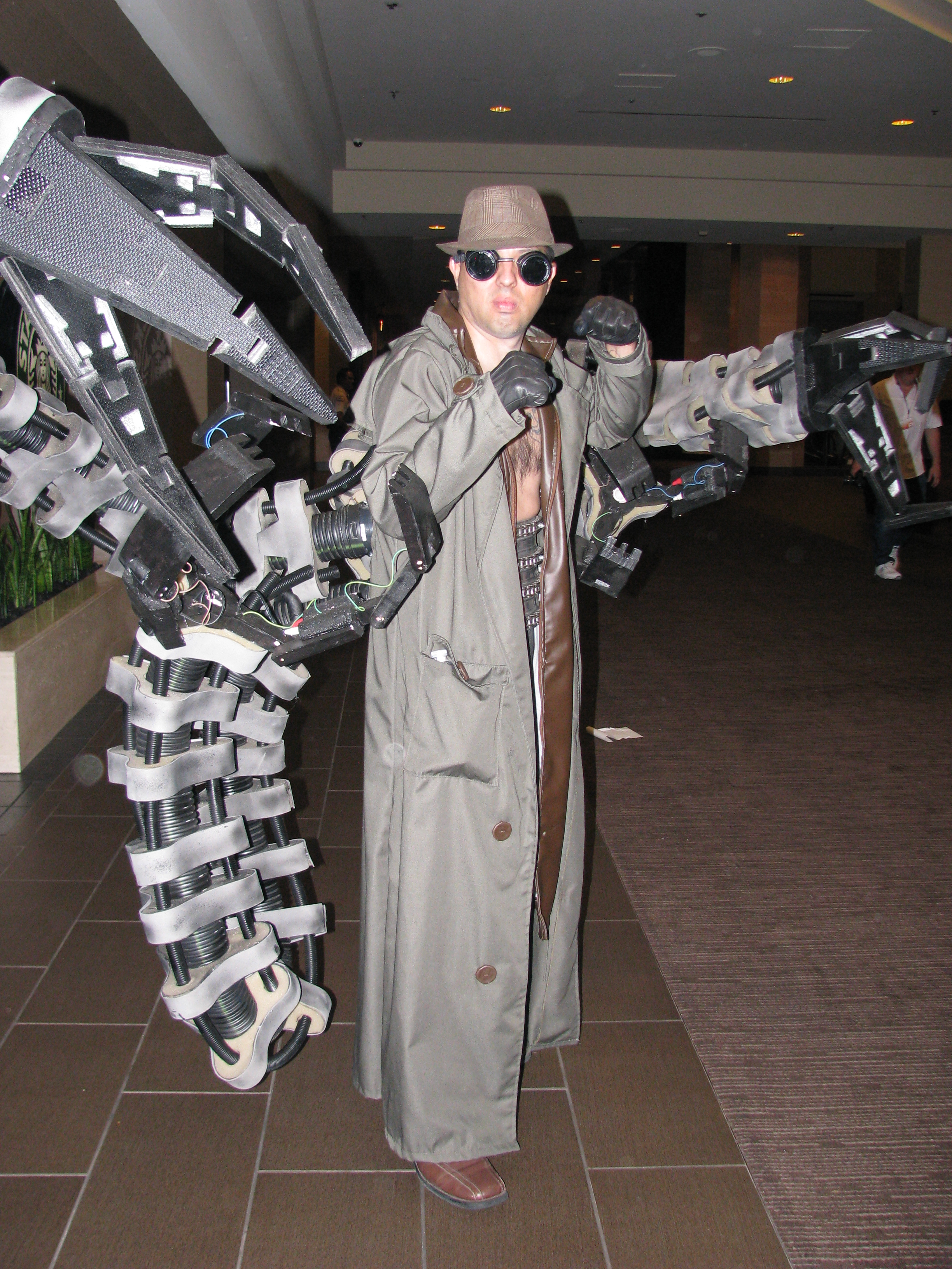 WonderCon 2014 - Doctor Octopus cosplay